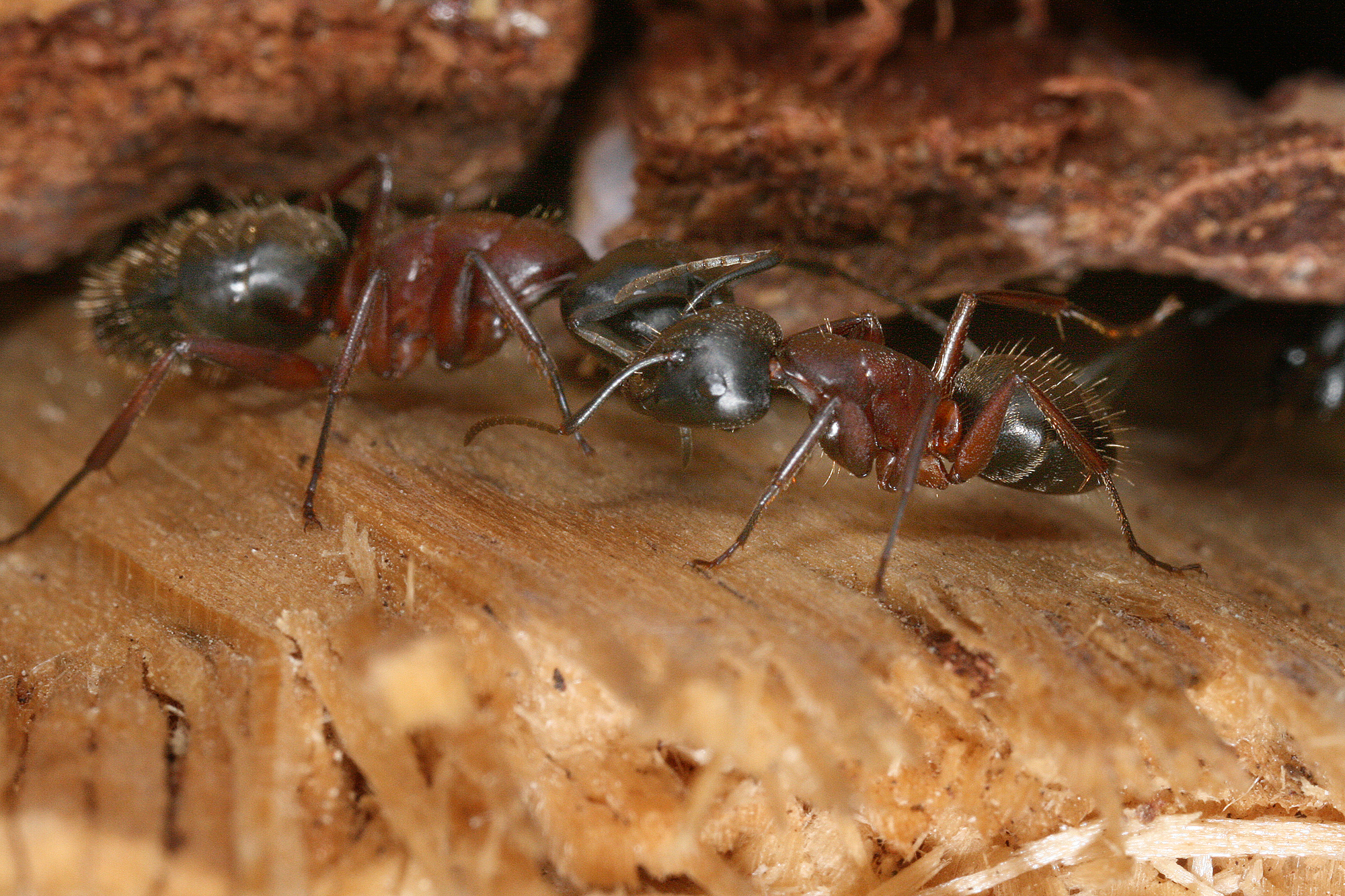 Description: This image shows a Carpenter ant (Camponotus ligniperda).Carpenter ants are large ants (¼ in–1 in) indigenous to large parts of the world. They prefer dead, damp wood in which to build nests. Sometimes carpenter ants will hollow out sections of trees.